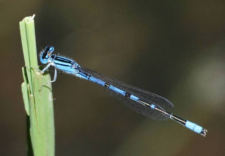 Male Sapphire Bluet, near Mount Fletcher (Tsolobeng), Eastern Cape